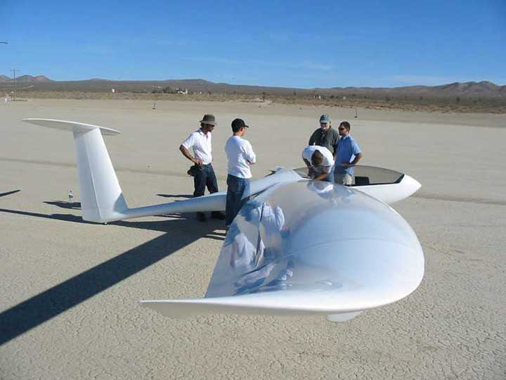 Glidersport LightHawk. Source: Danny Howell It is his sailplane and his photograph on his website. URL